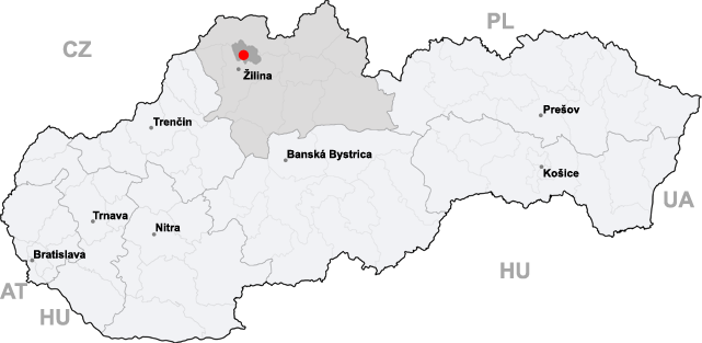 map of Slovakia, city of Kysucké Nové Mesto highlighted